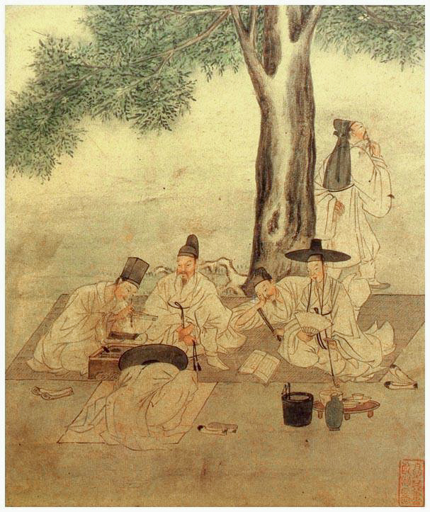 사인시음 (Sa-in-shi-eum). Depiction of seonbi writing, by the 18th-century Korean painter Damchul Kang Hui-eon, (1738-1784).